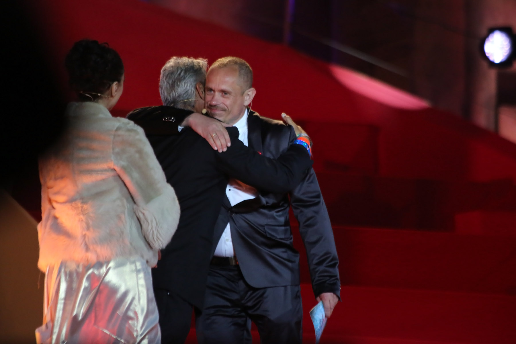 Gery Keszler and Greg Louganis, opening show of Life Ball 2013 at the city hall of Vienna, Vienna, Austria.